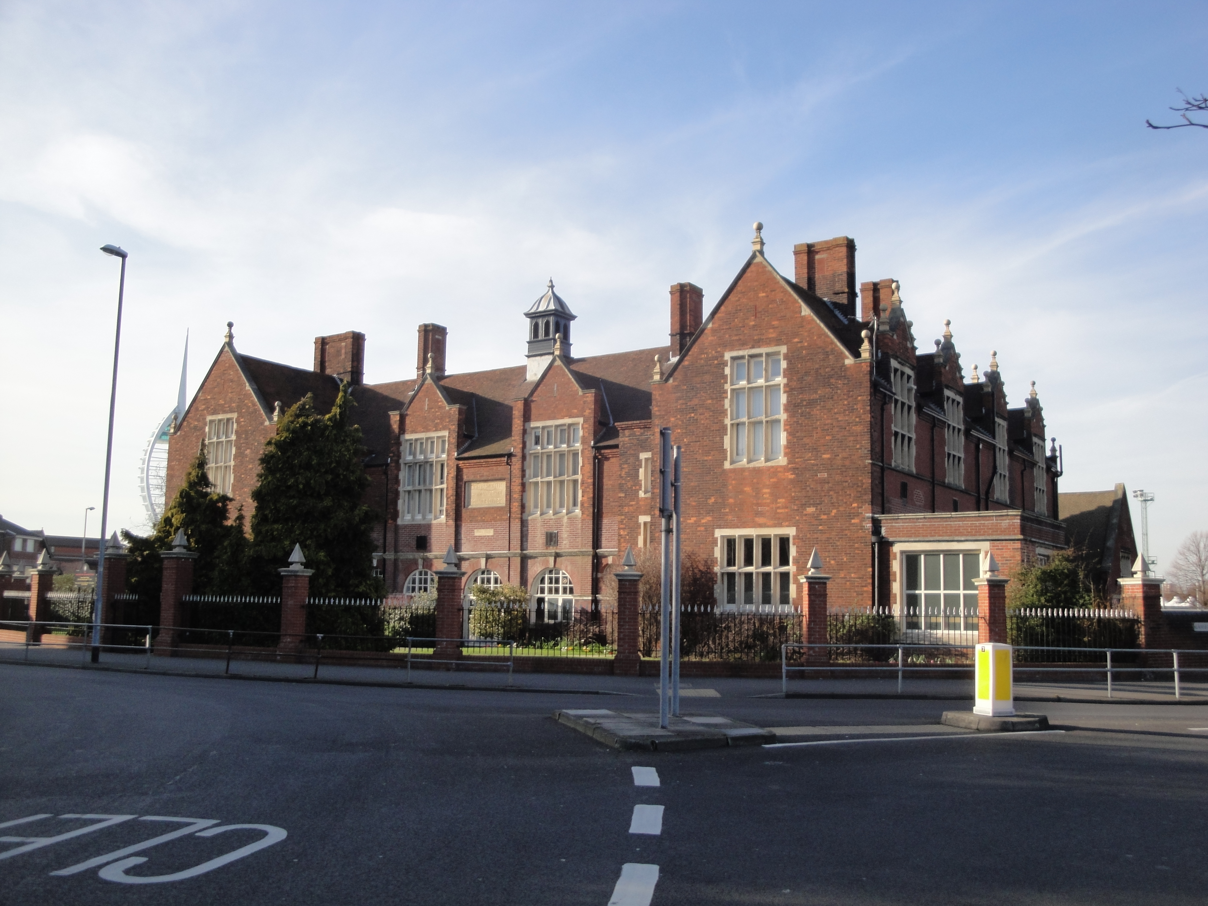 Portsmouth Grammar School, Portsmouth, Hampshire, seen from the roundabout at Cambridge Road, in March 2012.